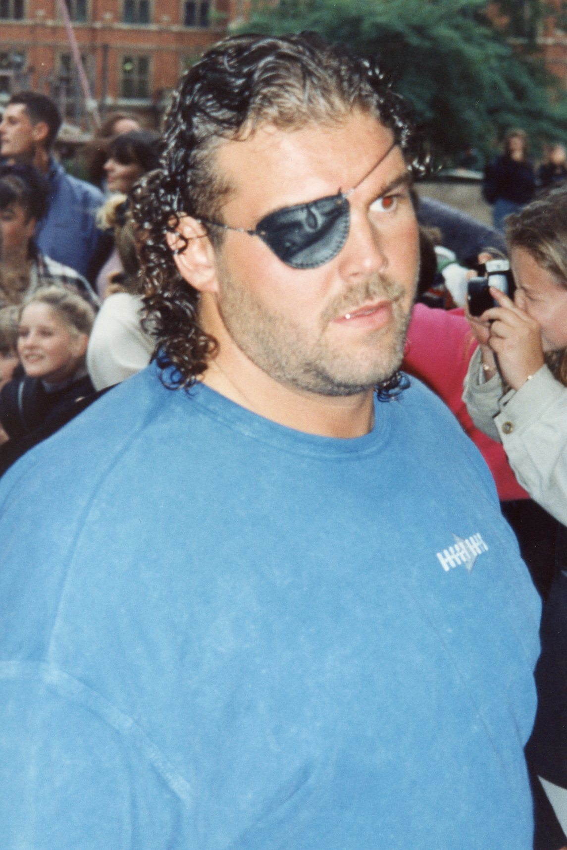 An image of professional wrestler Carl Ouellet at a WWE event at the Royal Albert Hall from 1995.